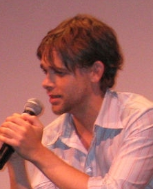 Nick Stahl at a Sin City Q&A in the Paramount Theater in Austin in 2005 Camera: Canon PowerShot S230 License on Flickr (2011-01-31): CC-BY-2.0 Flickr tags: Sin City, Robert Rodriguez, Frank Miller, Jaime King, Nick Stahl, Paramount Theater, Austin